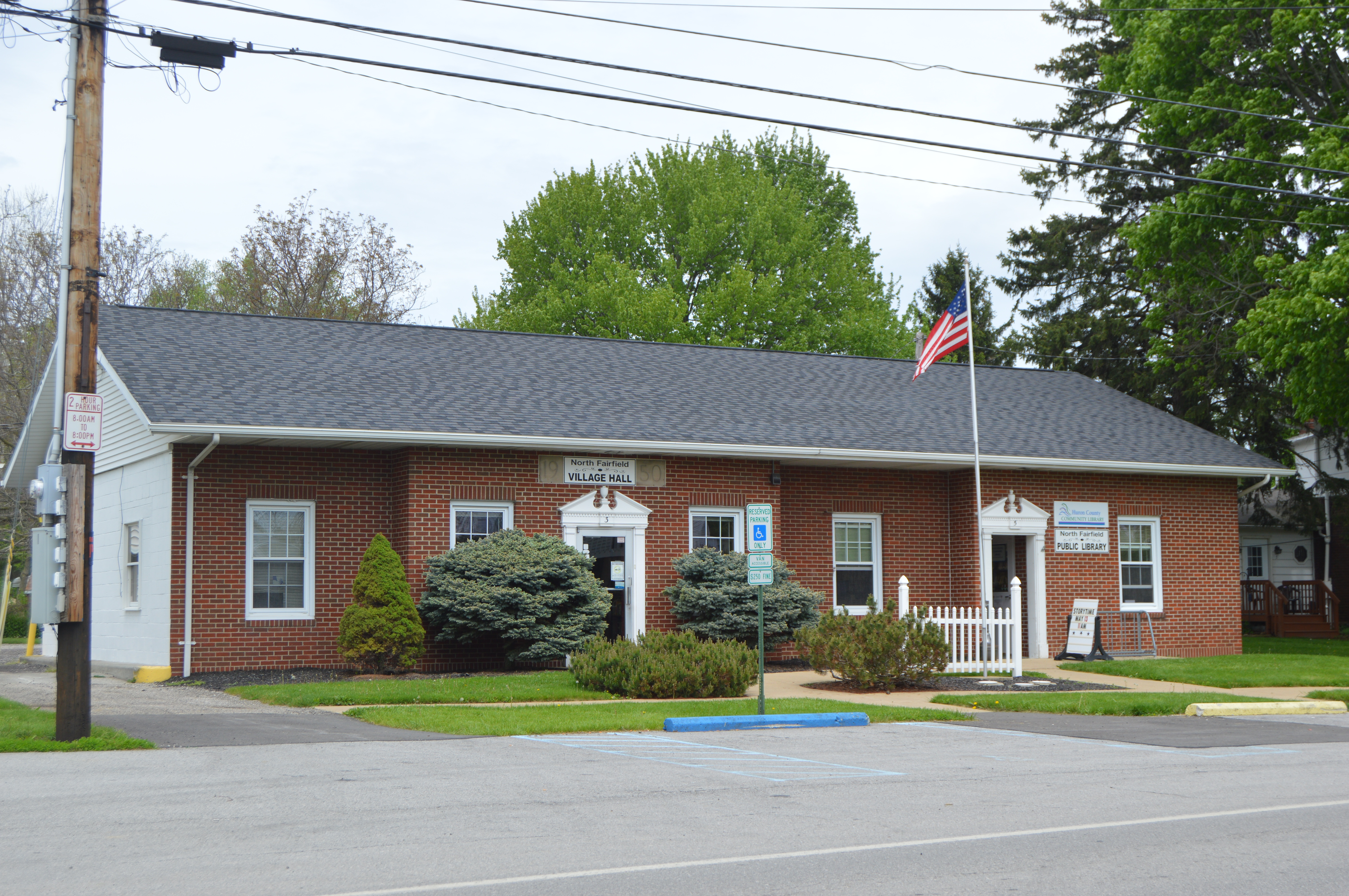 Front of the North Fairfield village hall and library, located at 3-5 E. Main Street (State Route 162) in North Fairfield, Ohio, United States.